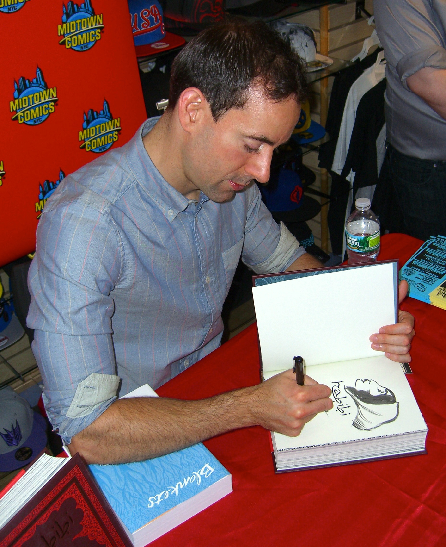 Graphic novelist Craig Thompson at a September 20, 2011 signing for his book, Habibi at Midtown Comics Downtown in Manhattan. In the photo, Thompson has just sketched Dodola, the book's female lead, on the book's title page, and is signing his name below it, which he did for each book fans presented to him at the signing. Photographed by Luigi Novi. This photo is not in the public domain. It may, however, be used, modified and published for any purpose, free of charge, only if the photographer is properly credited, either by linking the photograph to this page, or with an easily visible credit to the photographer placed near the photo in each instance in which it is used. (See licensing information below.) Publication of this photo without this proper attribution constitutes copyright infringement. If you have any questions, you can contact me on my Wikipedia Talk Page.